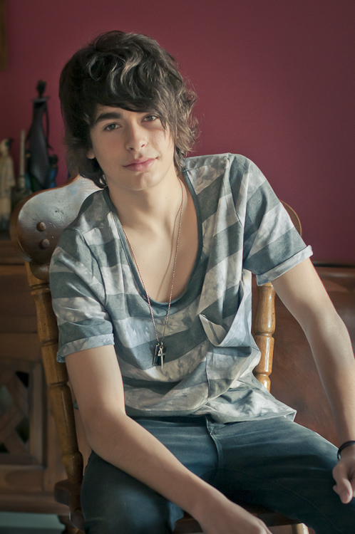 Bobby Andonov portrait, taken in Perth Western Australia.